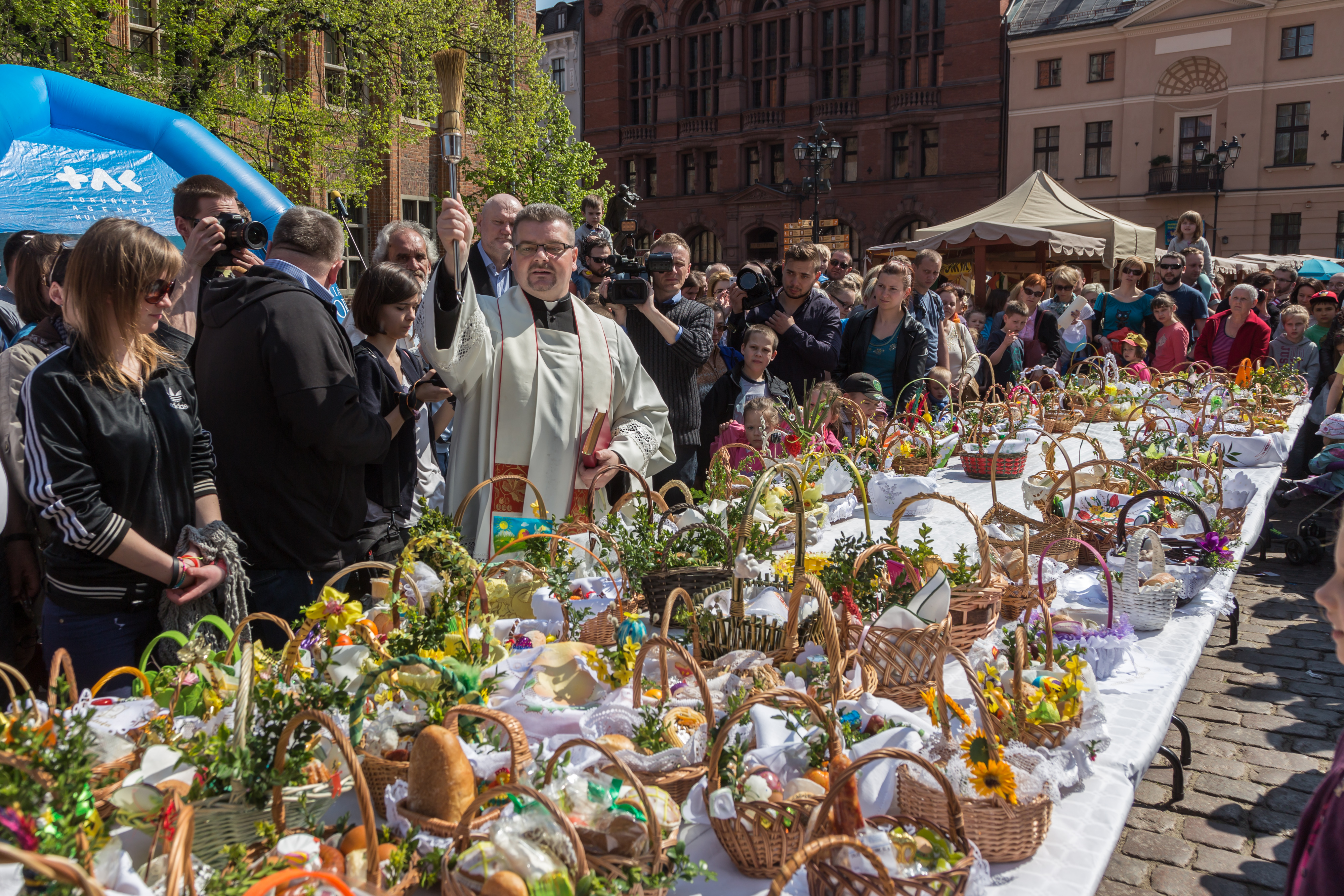 The well known Easter eggs used for decoration during the Easter holidays are still used in Poland, and treated not only as a symbol of Earth to celebrate spring, but also as a symbol of resurrection. Painted eggs and other products like bread, salt, sausage, ham, horseradish, and Easter cake are put into a basket and brought to the Church on Holy Saturday to be blessed by a priest. It became so popular that the blessing takes place not only at the church, but can be organized as a public ceremony on the main square of Polish towns. The blessed food is used on Easter Sunday Breakfast, which is a common custom in Poland. Maria Sliwinska, ICIMSS, Poland